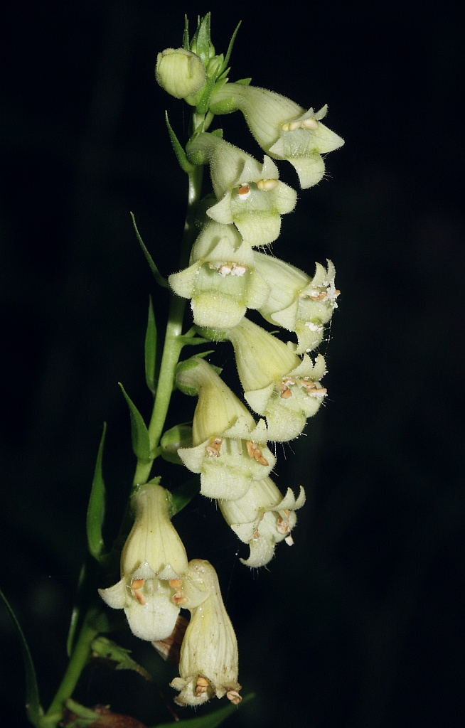 Digitalis lutea, Hohenlohe, Germany